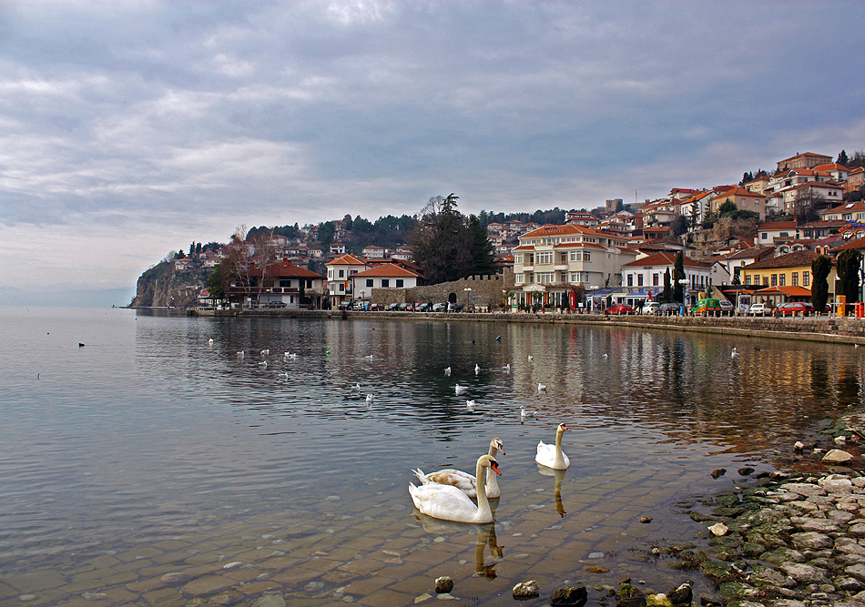 Ohrid lake and the old town Ohrid